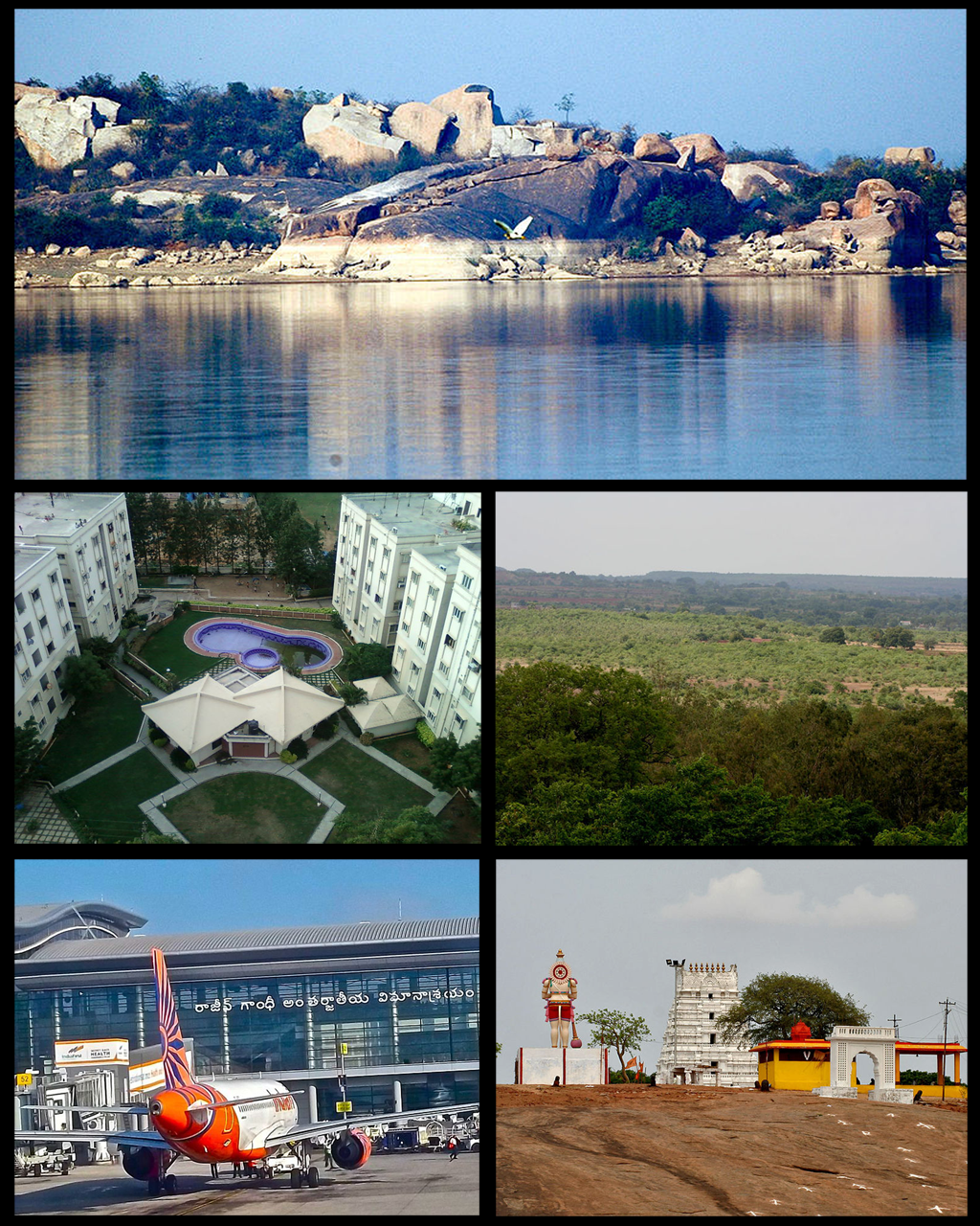 Rangareddy District Montage with Images from wikimedia commons